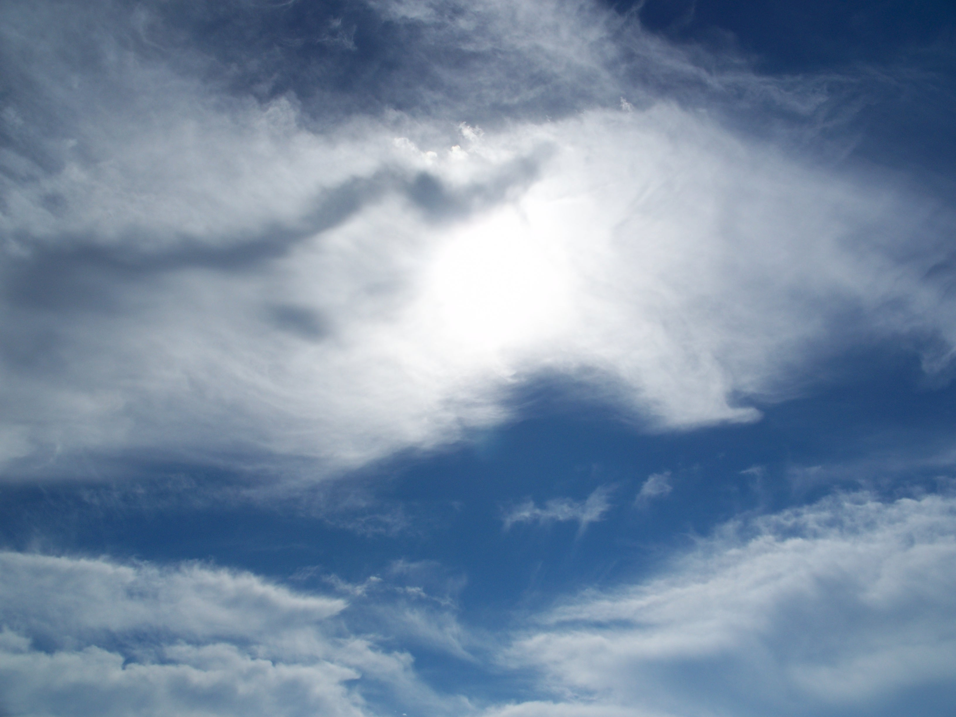 Silver Lake, Florida: Sun behind clouds over the lake.